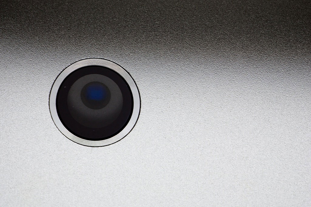 The camera on the 3rd generation iPad